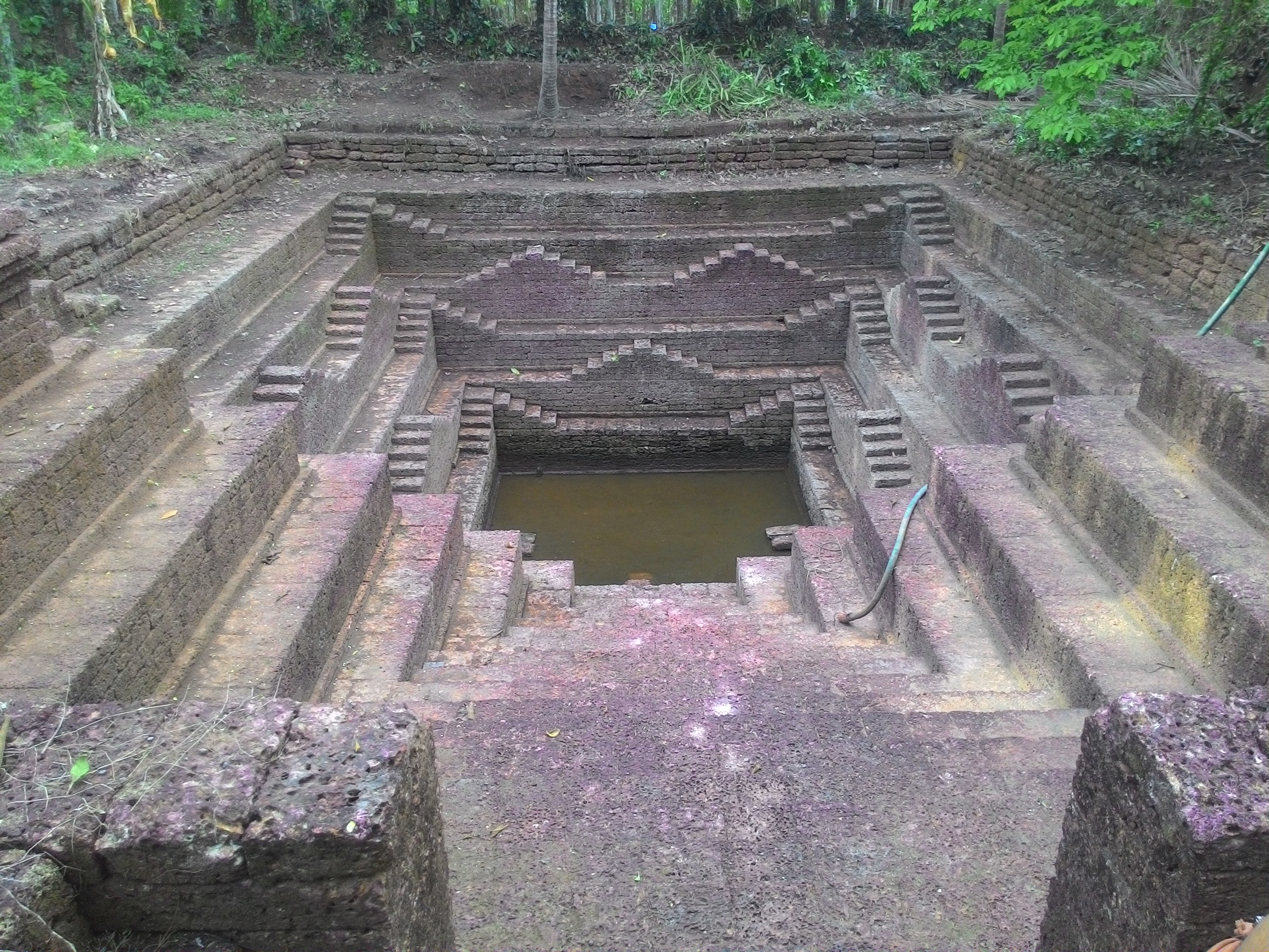 Family pond for bathing of varanakkottillam, a landlord family of Kerala, India.